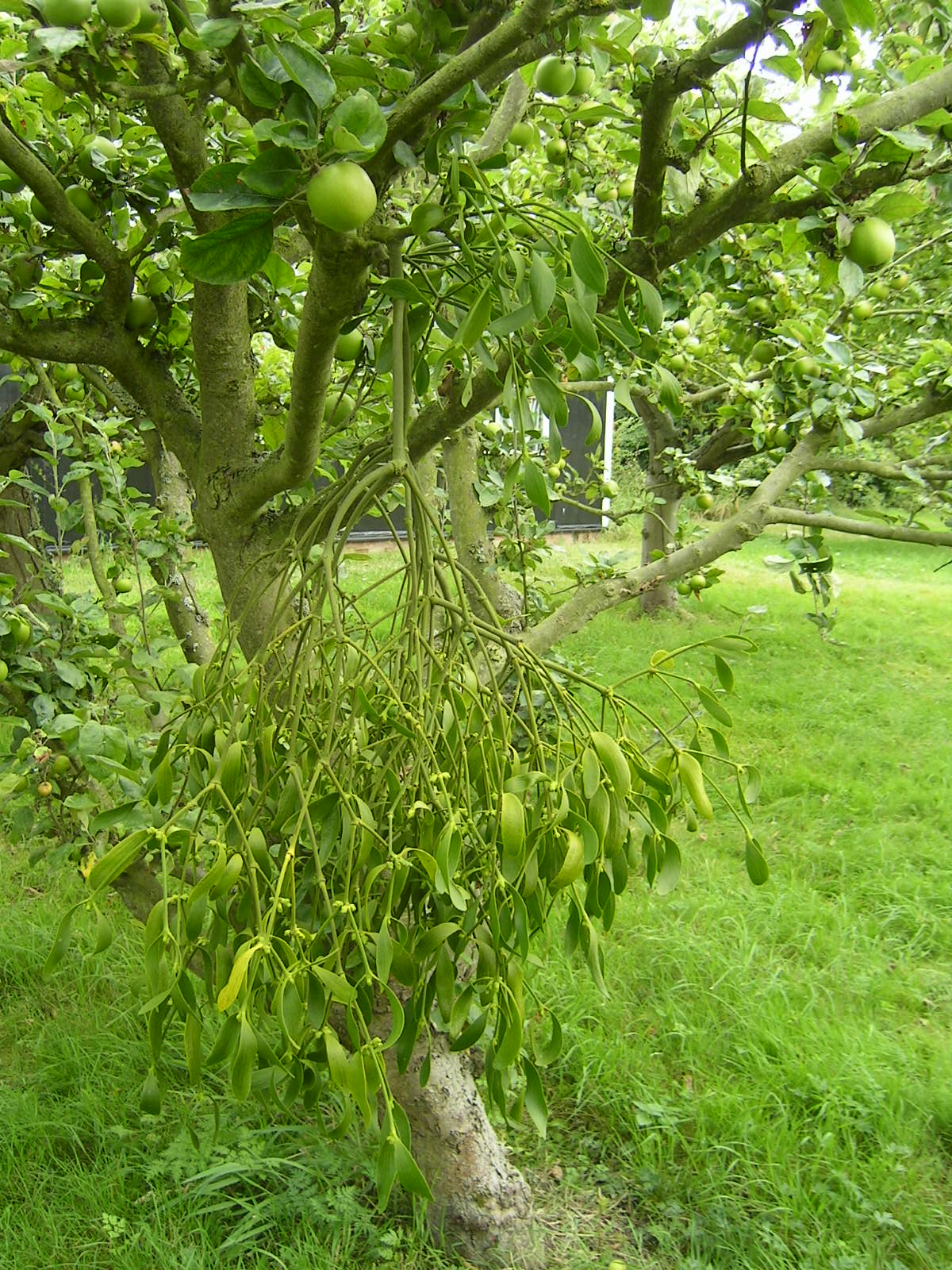 Mistletoe Viscum album in an apple tree in Essex, England